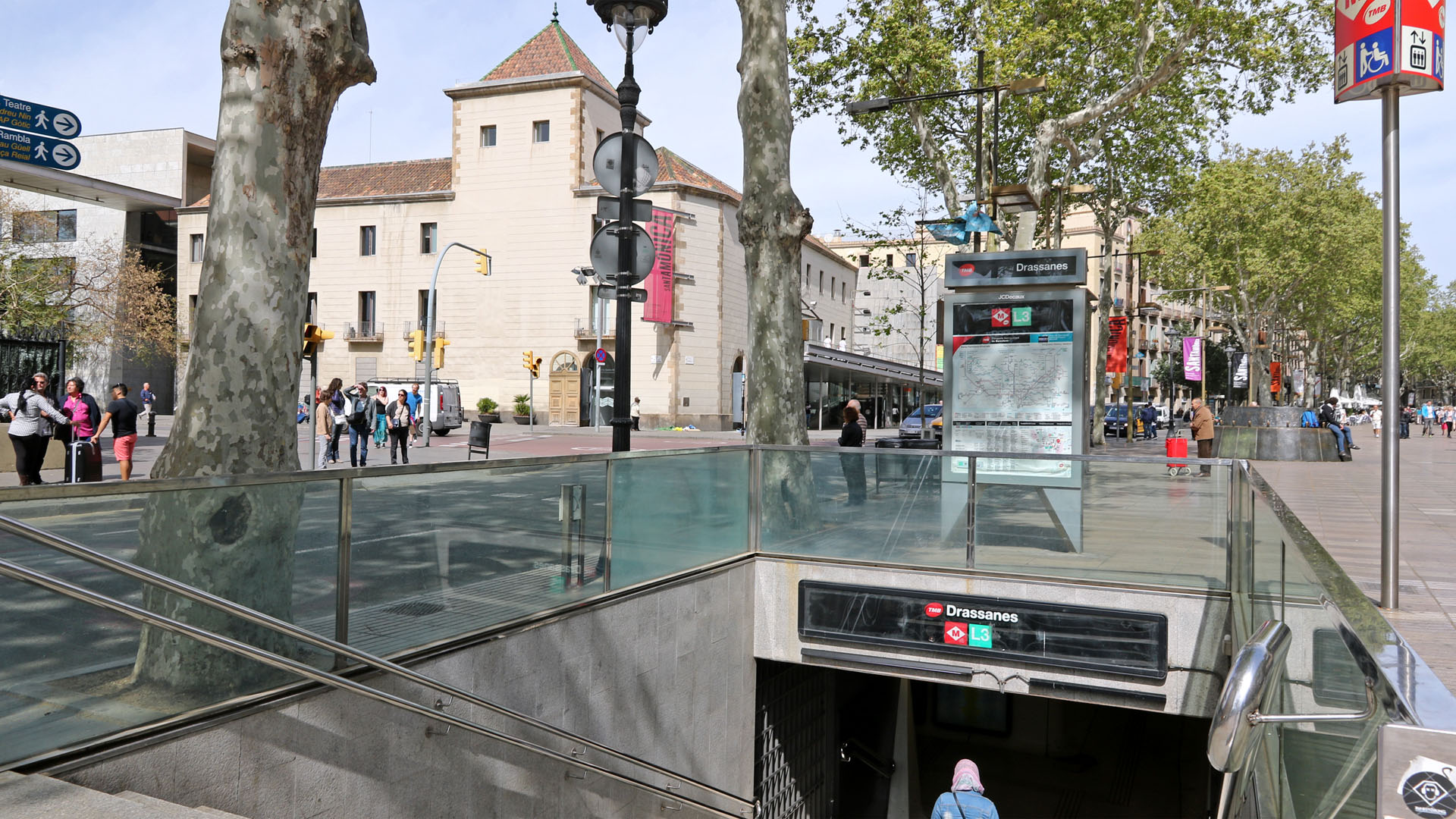 Spain -Barcelona: Drassanes